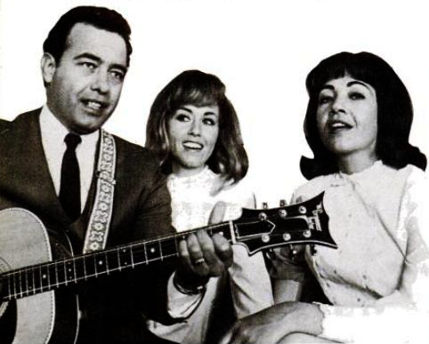 Trade ad for The Harden Trio's single "Everybody Wants to Be Somebody Else". To better adapt it to his respective Wikipedia article, the ad was cropped and cleaned in a graphics editing program. The original can be viewed at the source below.